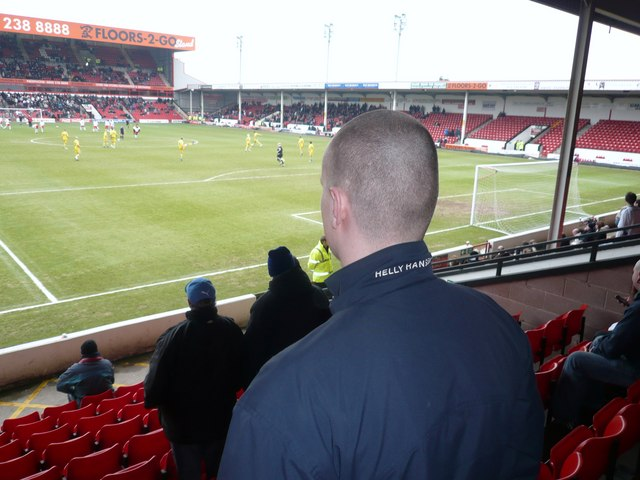 The Away End, looking North The view for the away fans at the Banks's Stadium, Bescot, Walsall.